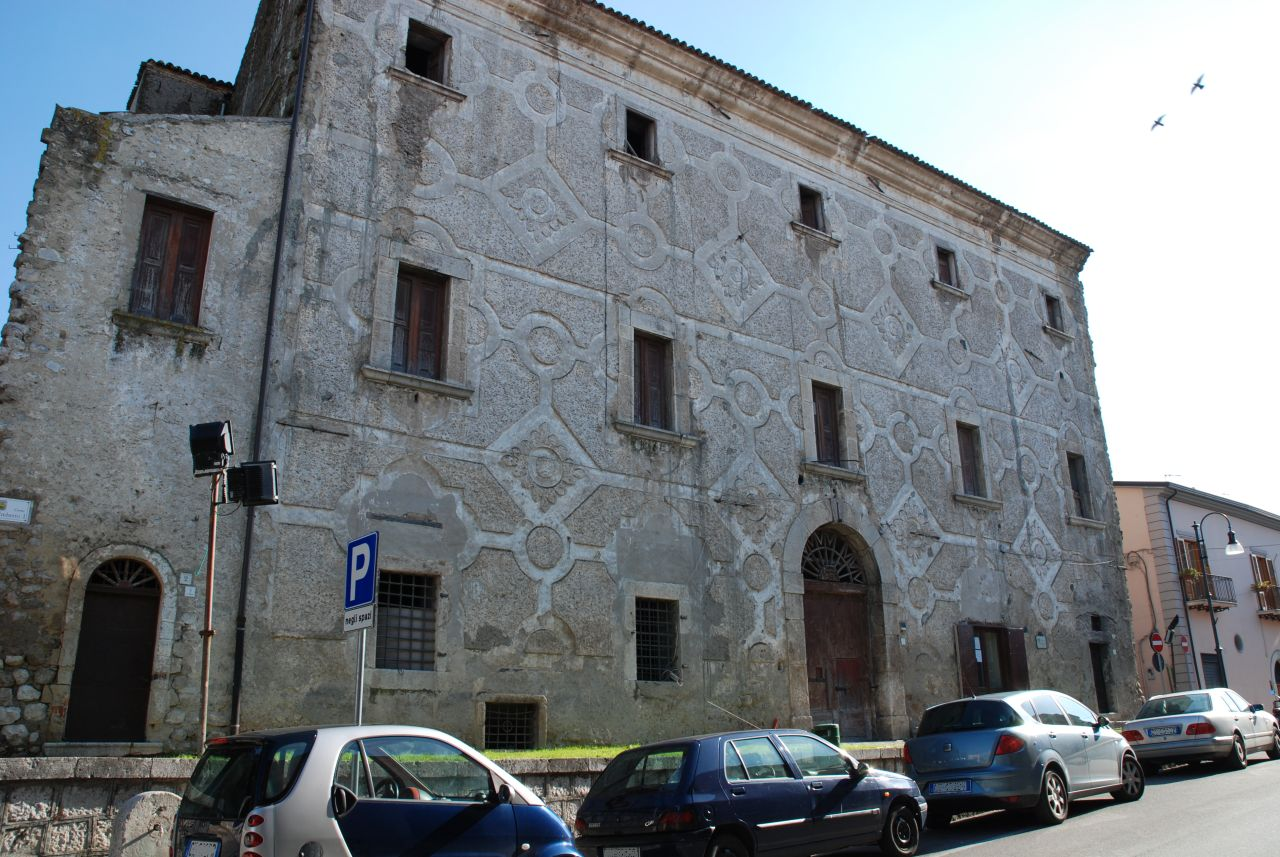 Facade of the Ducal Palace in Solopaca, Italy, built by Giovanni Antonio Ceva Grimaldi, 3rd Duke of Telese, between 1672 and 1682